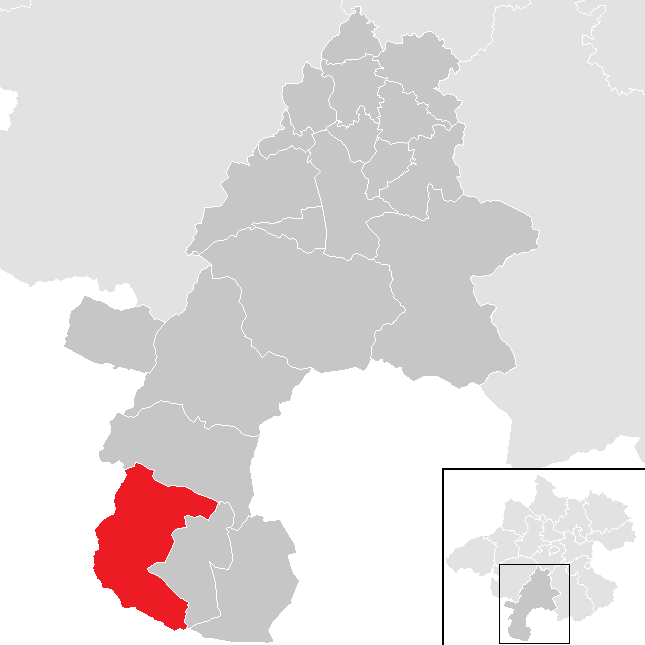 district Gmunden